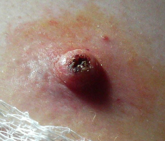 Keratoacanthoma, on the skin of the breast